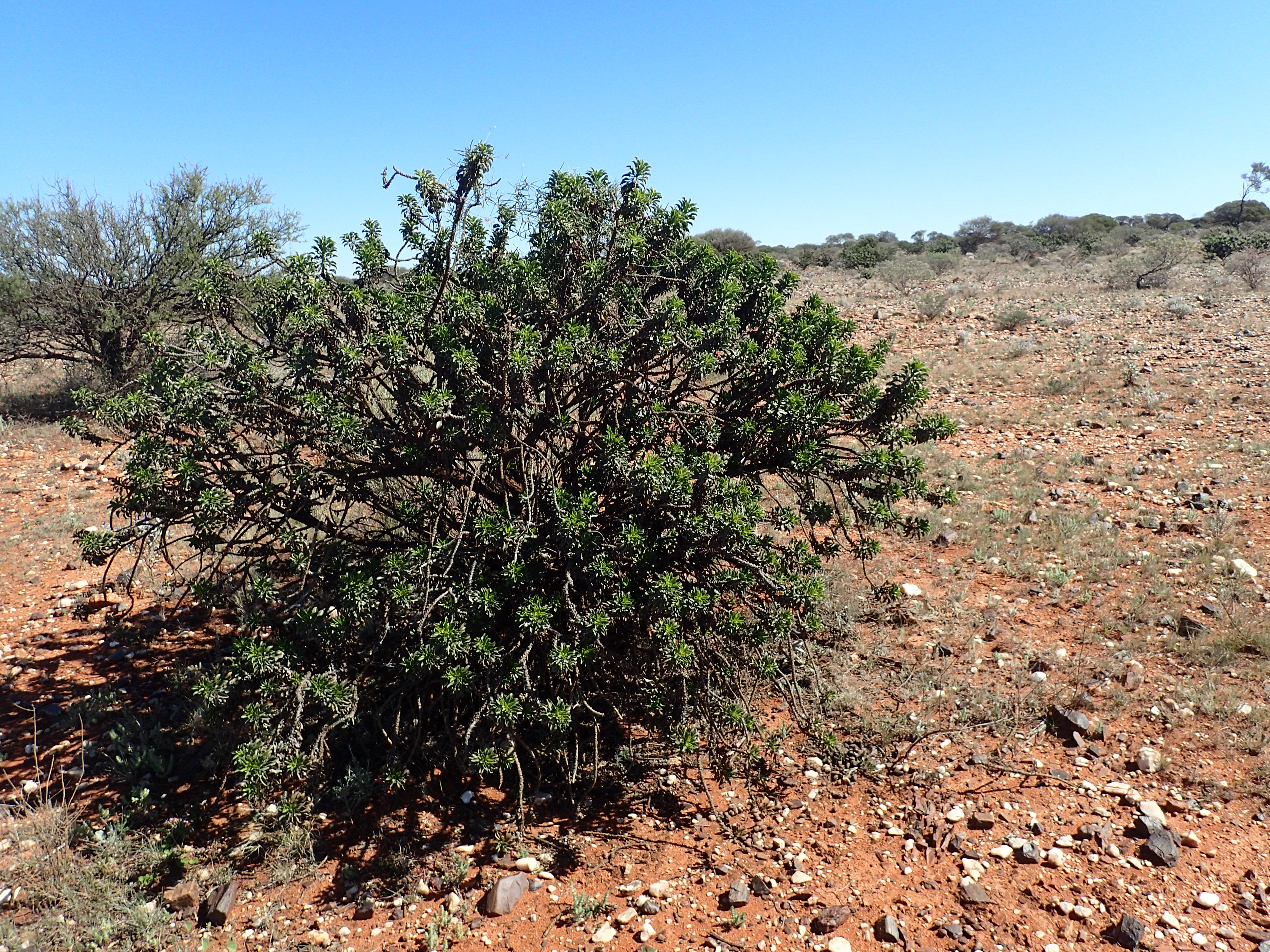 Eremophila ramiflora growing 8.4km along Old Agnew Road